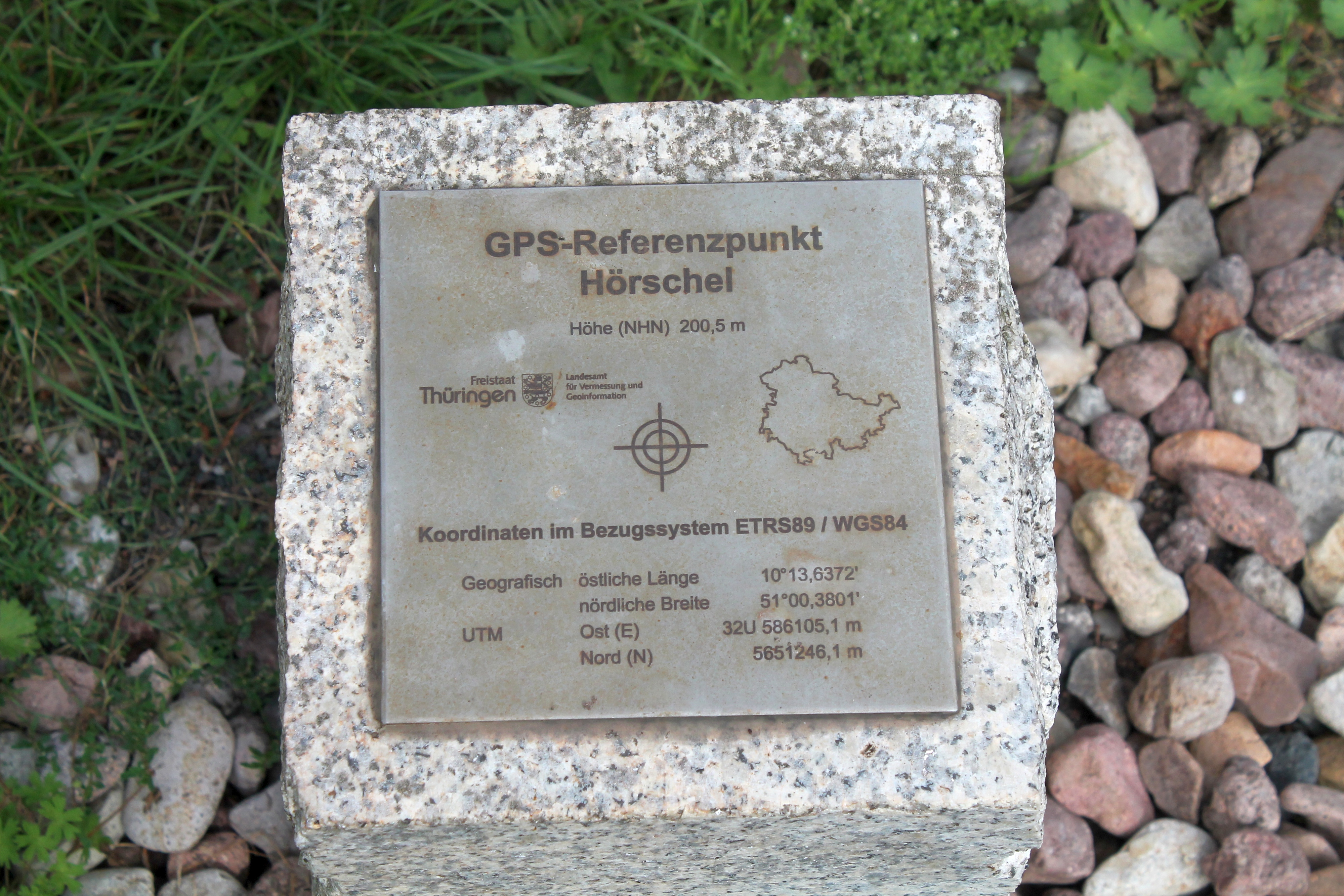 GPS referencing point Hoerschel, starting point of Rennsteig. Thuringia, Germany.